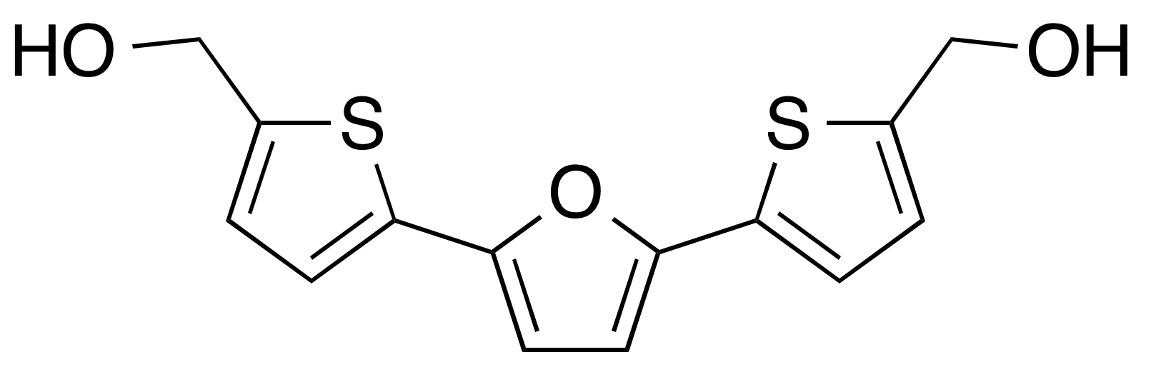 Skeletal structure of 5,5'-(2,5-furandiyl)bis-2-thiophenemethanol (synonyms: 2,5-bis(5-hydroxymethyl-2-thienyl)furan; RITA) (CAS# 213261-59-7)